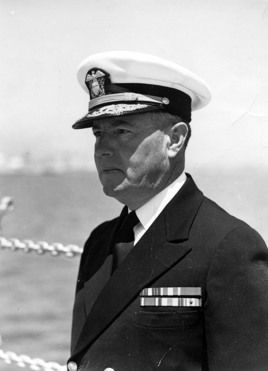 John Wills Greenslade (January 11, 1880 – January 6, 1950) was a highly decorated officer in the United States Navy with the rank of Vice Admiral. He enjoyed a significant military career, participating in several conflicts and distinguished himself during World War I as Commanding officer, USS Housatonic and during World War II as Commander, Western Sea Frontier and Commandant, Twelfth Naval district with headquarters at Mare Island Naval Shipyard.